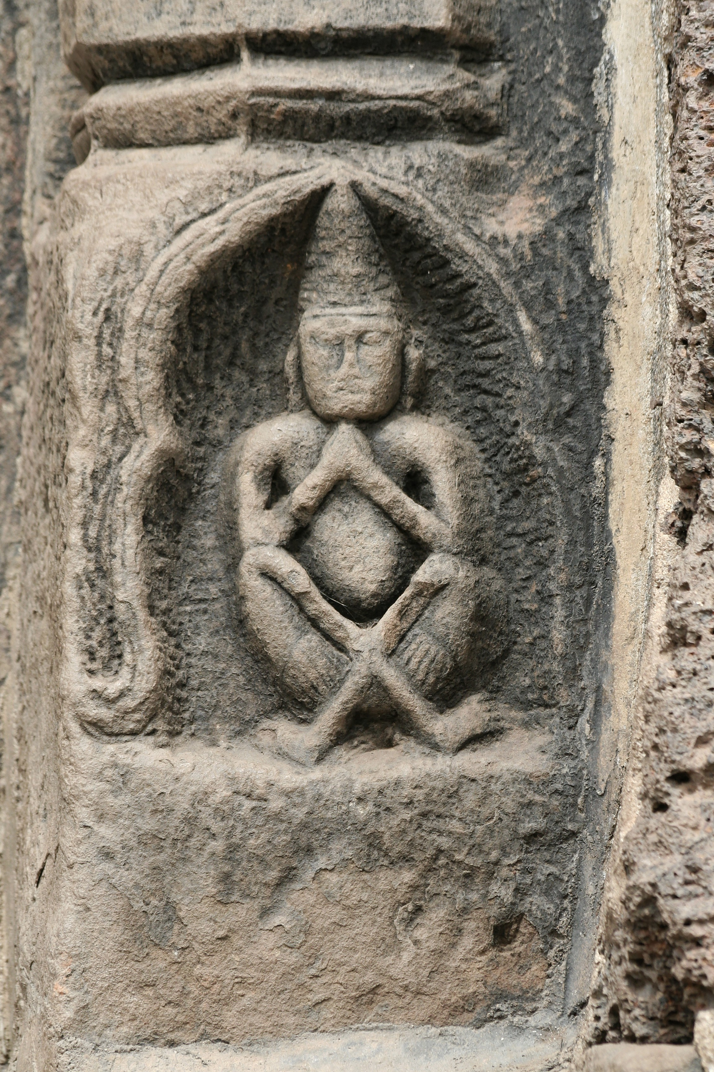 Carving of Rishi (Hermit) in the base of a colonette of the southern door of Prang Sam Yod, Lopburi, Thailand.